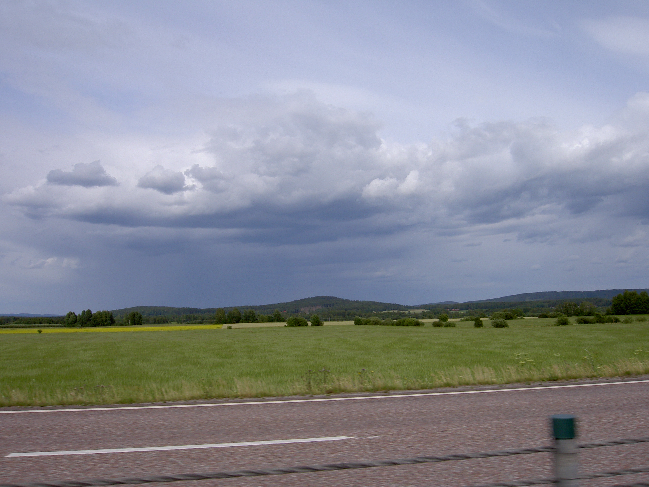 Tunaslätten – a plain in Borlänge municipality, Sweden. Seen from riksväg 70 (throughroute 70).